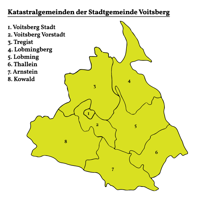 The cadastral communities of the town Voitsberg. The template used for the map is here.